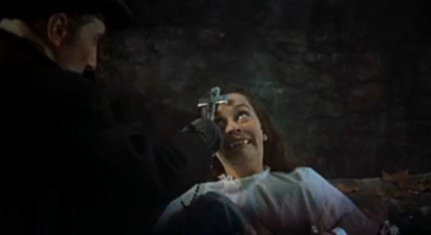 A screenshot from the trailer for Dracula (1958), an Hammer Horror production